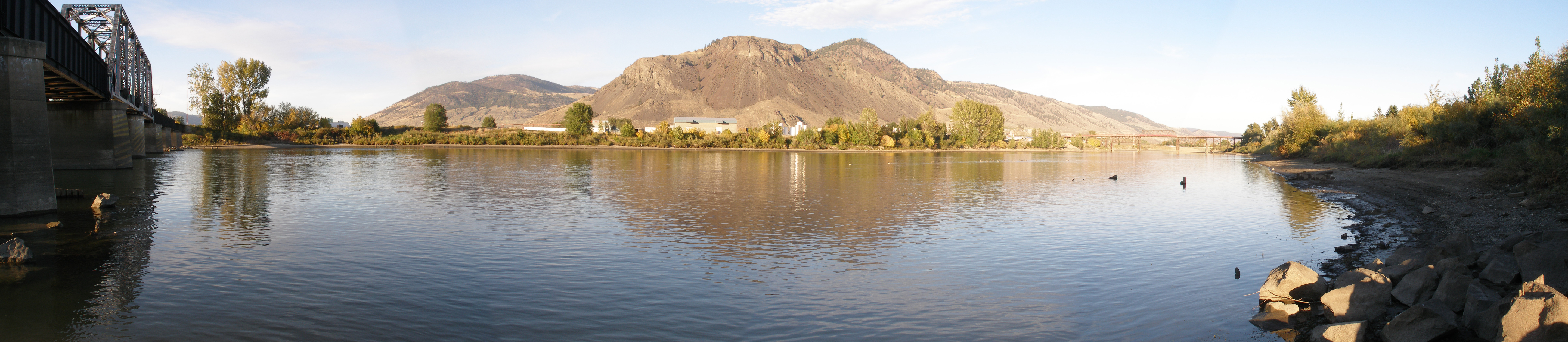 Thompson River, Kamloops